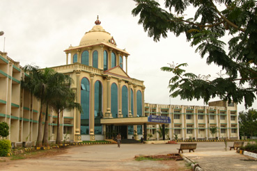 Kuvempu University near Lakkavalli